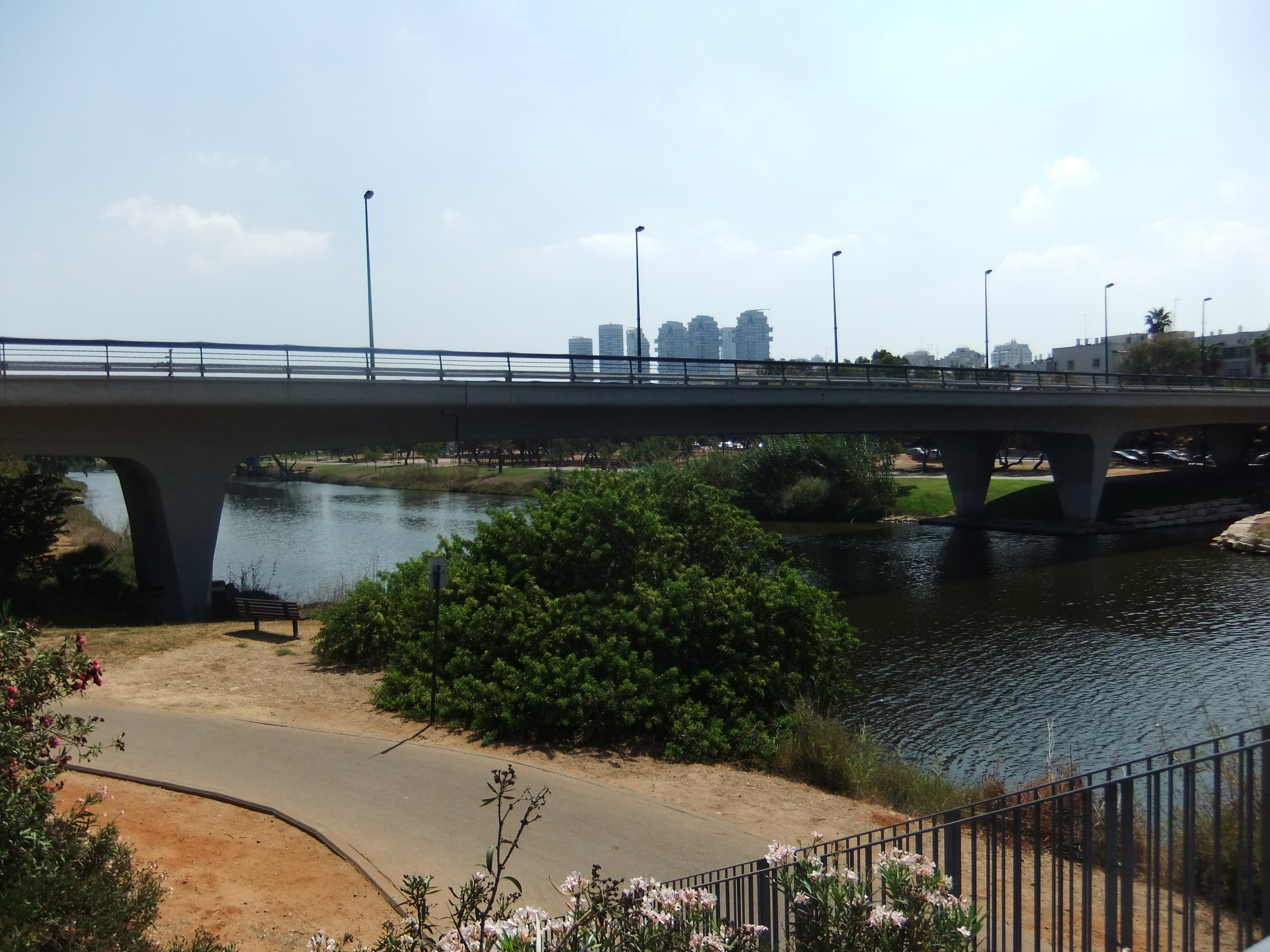 Bar-Yehuda bridge from the west